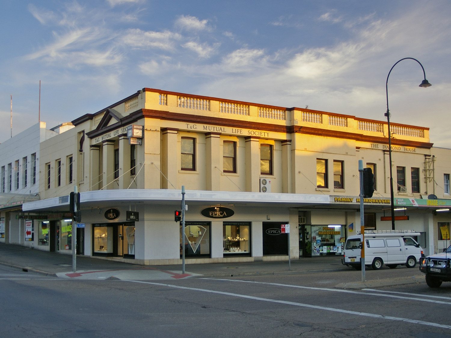 Former T & G Mutual Life Society building. Wagga Wagga